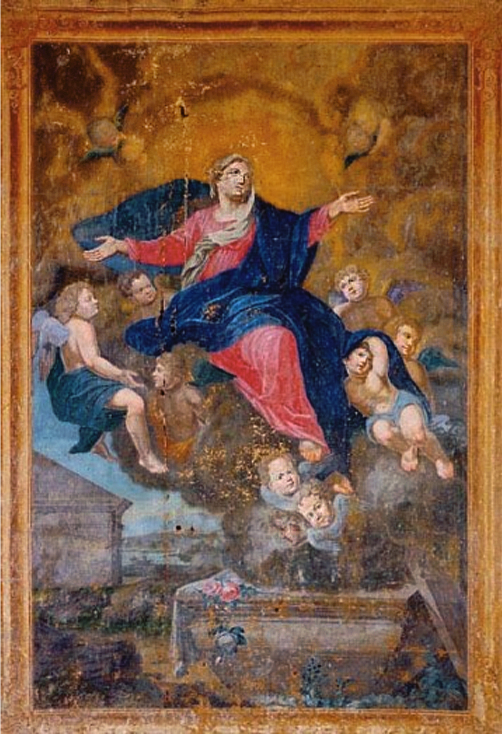 chapel Our-Lady-of-the-Snows, Caudan, Morbihan, Brittany.